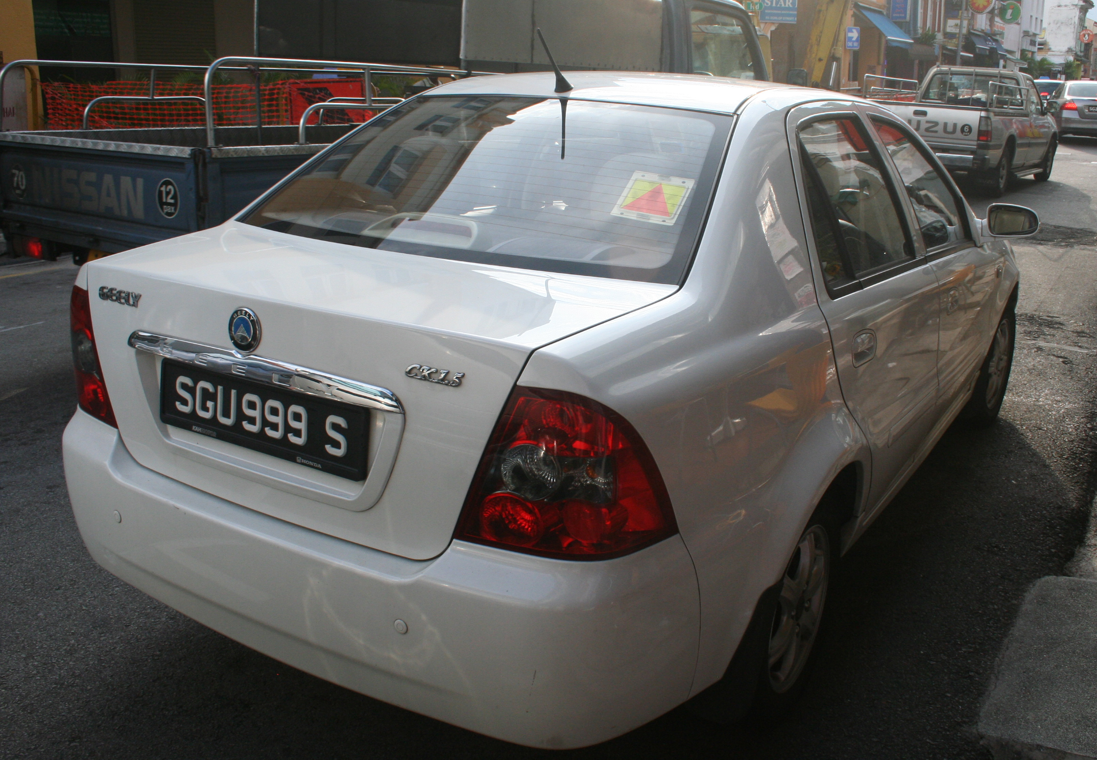 Geely CK 1.5 in Singapore